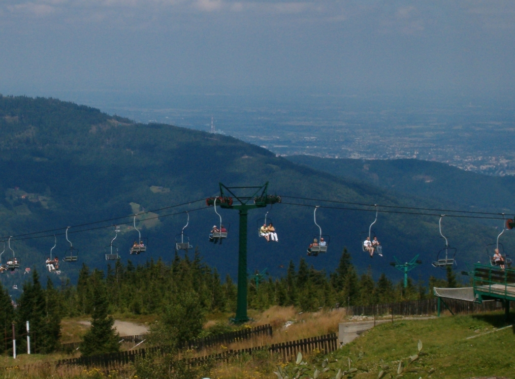 Chairlift in Szczyrk (Poland)